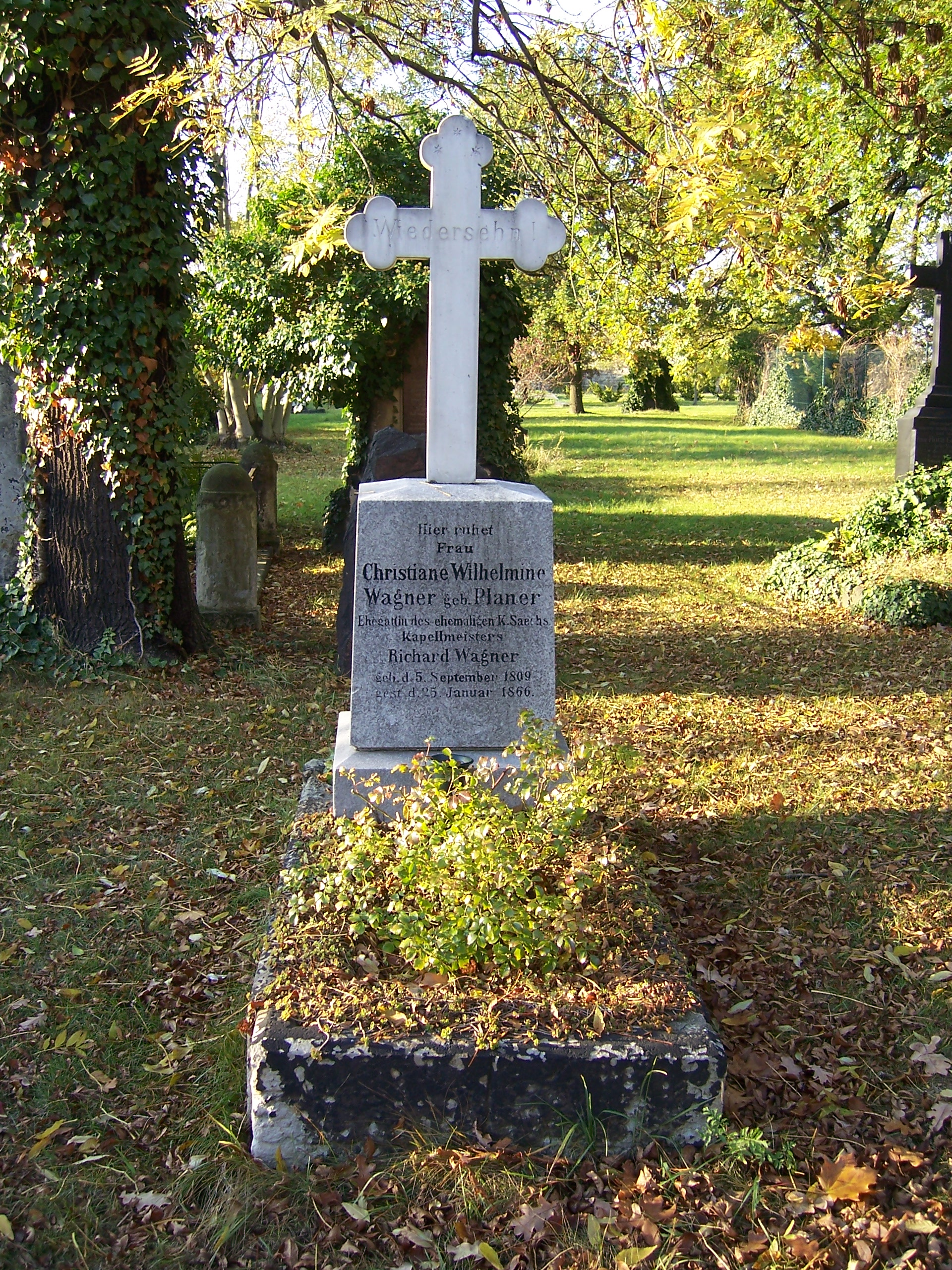 Grave of Minna Wagner, the first wife of composer Richard Wagner at the Alter Annenfriedhof in Dresden.